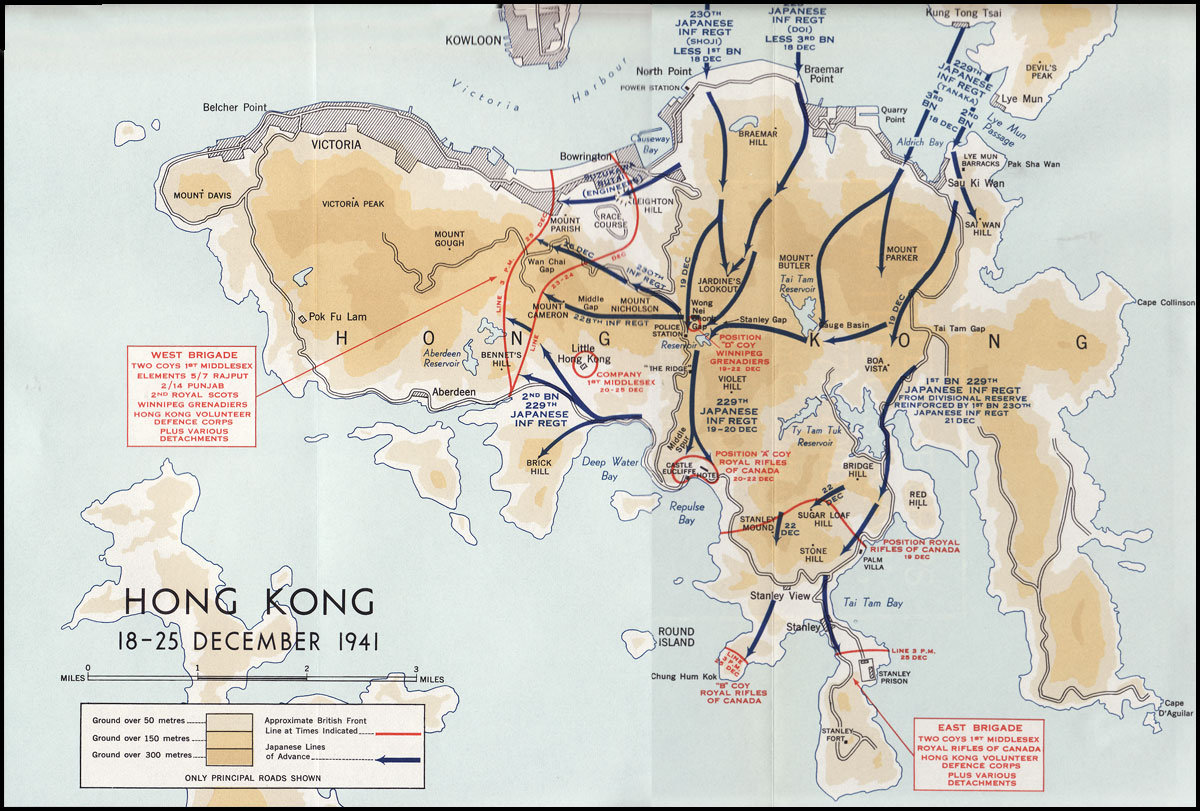 Colour map of the Japanese invasion of Hong Kong, December 18–25, 1941